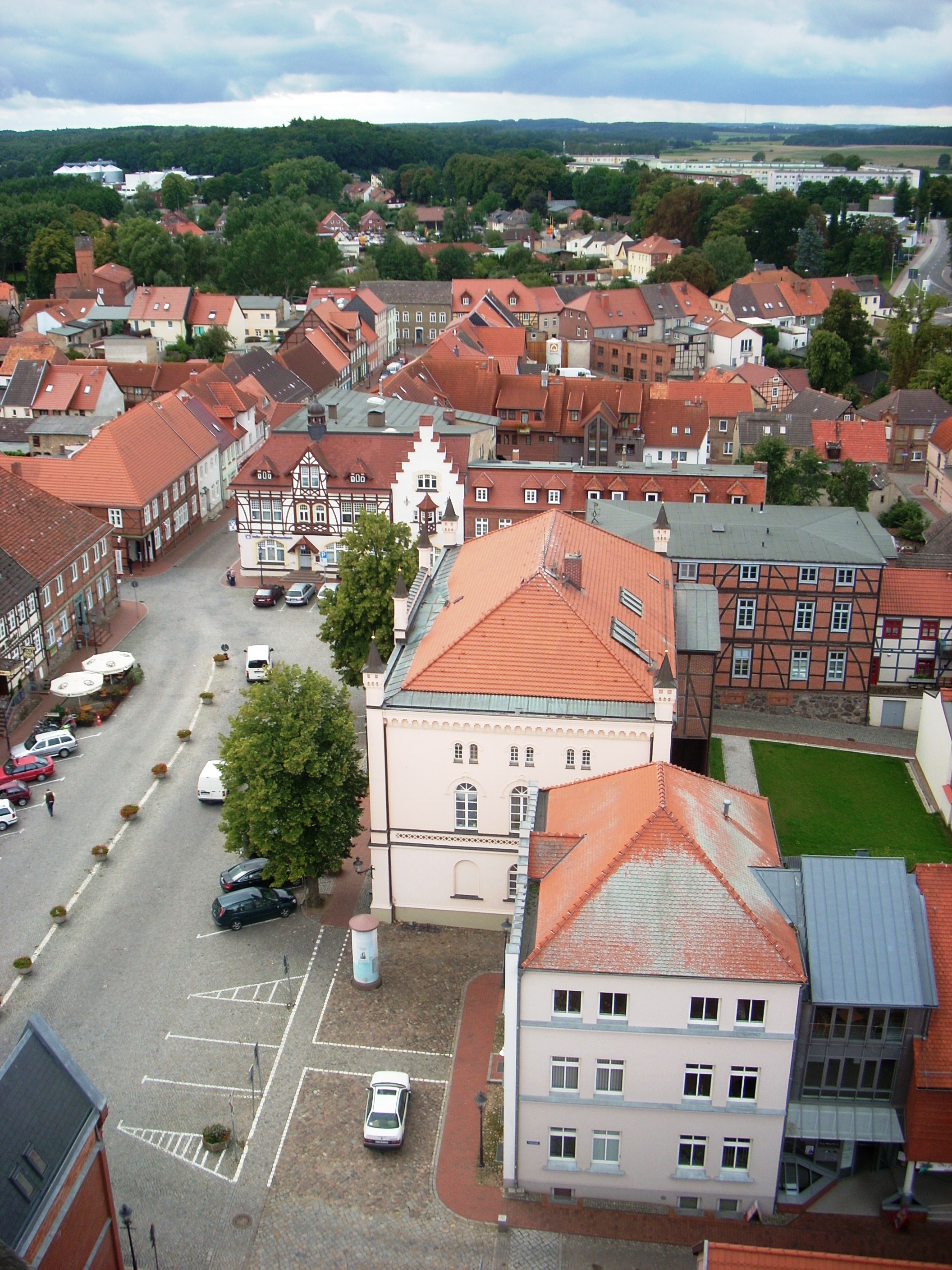 view over the Sternberger See from the church Marienkirche